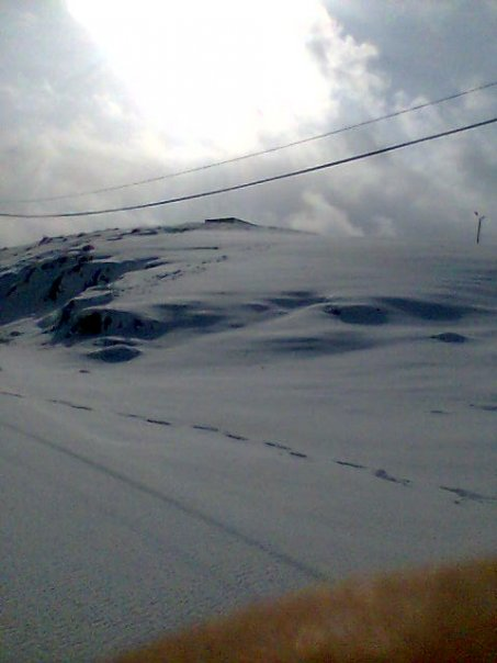 tal alnakah